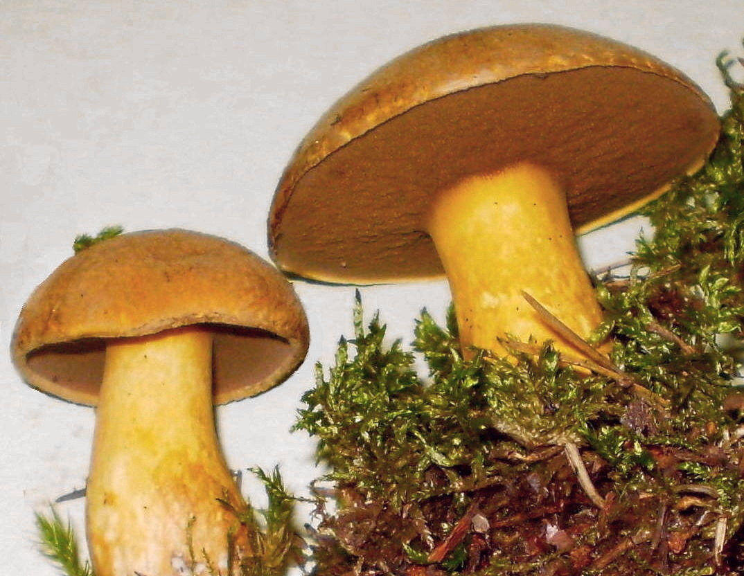 This image is the work of photographer Zonda Grattus, aka User:luridiformis. He is the sole owner and copyright holder of this photograph, and holds the original 35mm slide. He agrees to publish it under the Own Work, Creative Commons Attribution 3.0 License.